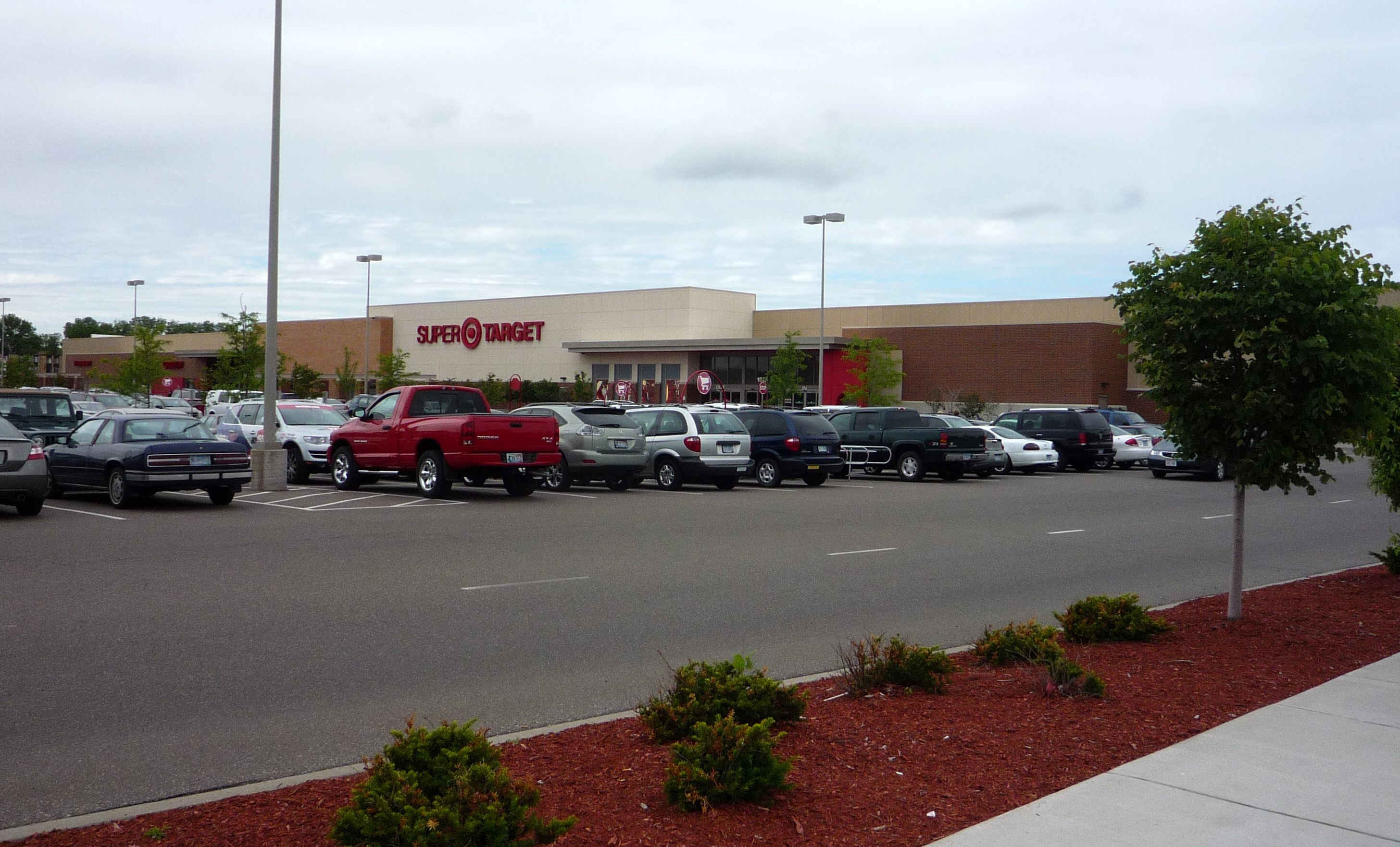 This SuperTarget is where the original Target store was opened in 1962; in 2005 it was torn down and replaced by this much larger store. Roseville, Minnesota, USA.